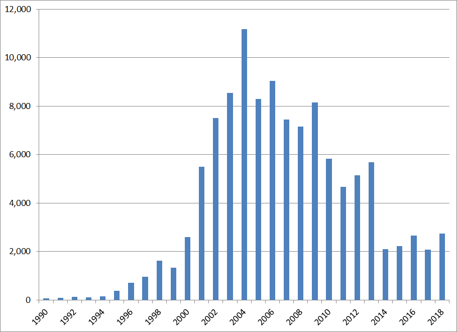 Chart of grants of British citizenship to Somali nationals, 1990-2012